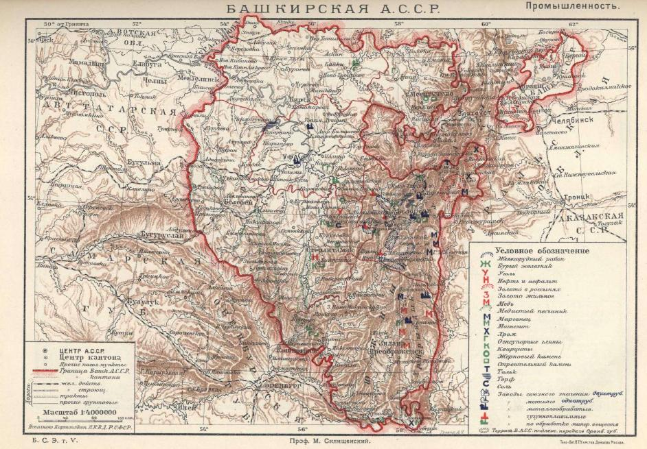 BASSR industry map Башҡортса: Башҡорт Автономиялы Совет Социалистик Республикаhы (Башҡорт АССР-ы, БАССР)